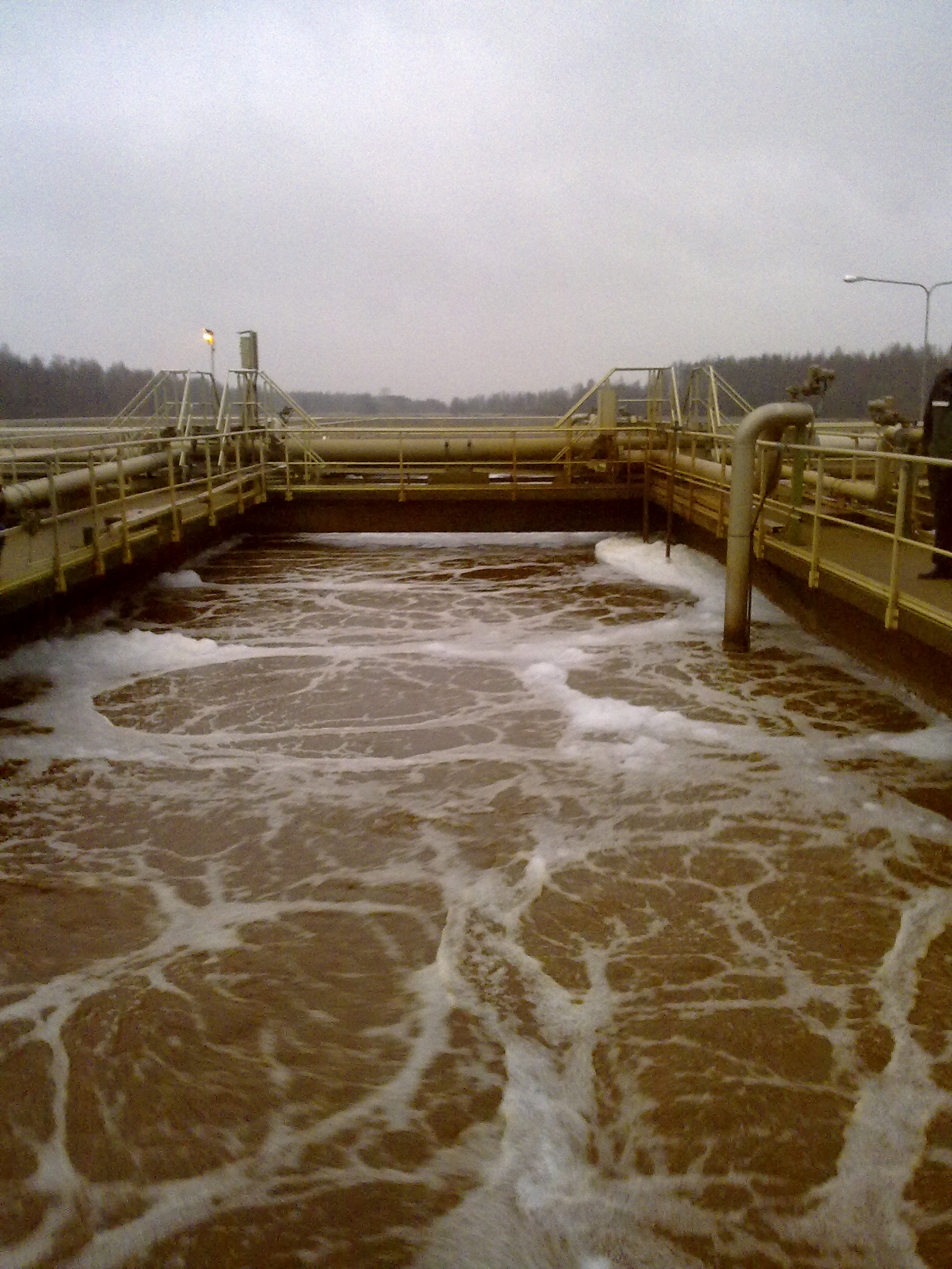 Wastewater treatment plant in Luotsimäki, Pori.